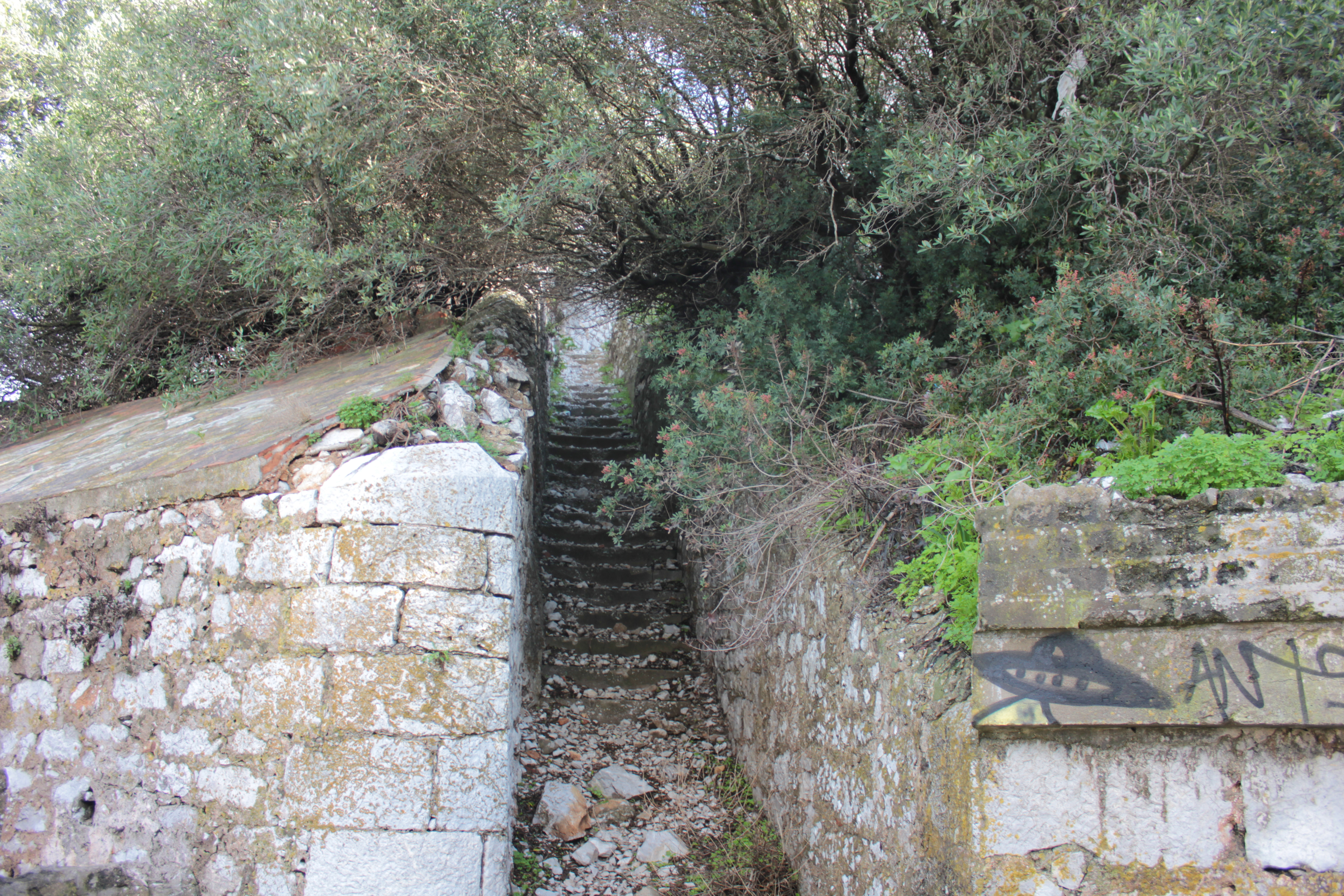 Steps to all's well cave